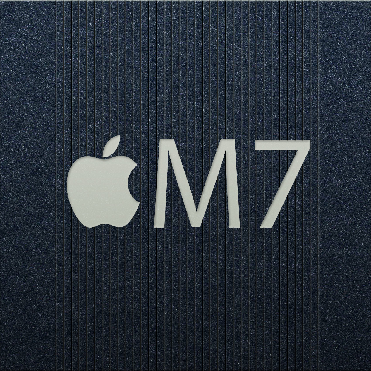 An illustration of the Apple M7 motion co-processor that was introduced with the iPhone 5s.